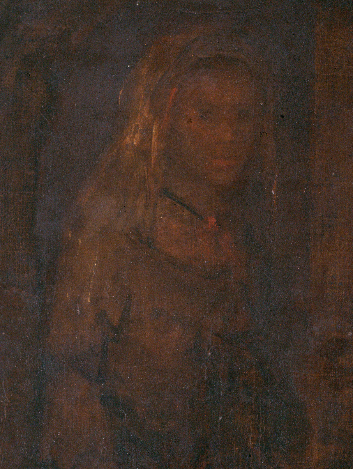 REMBRANDT Harmenszoon van Rijn The Return of the Prodigal Son (detail) c. 1669. Oil on canvas, The Hermitage, St. Petersburg